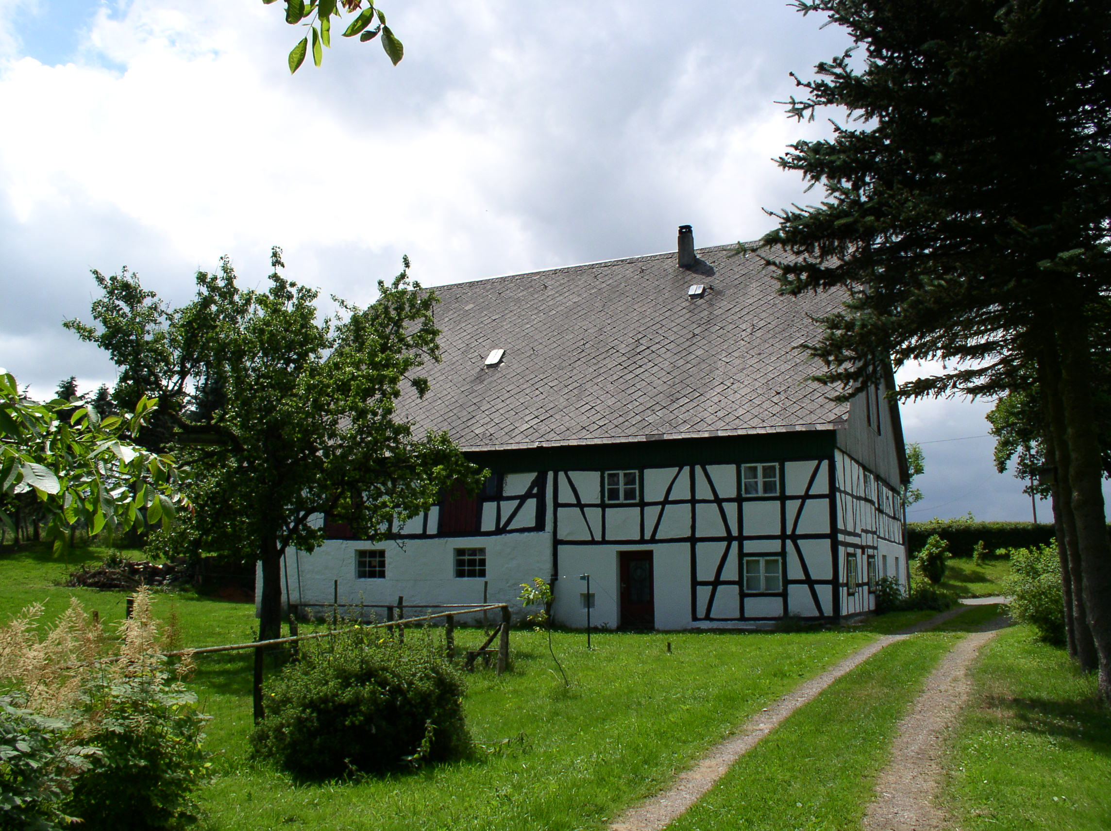 Halver-Heinken Hedfeld